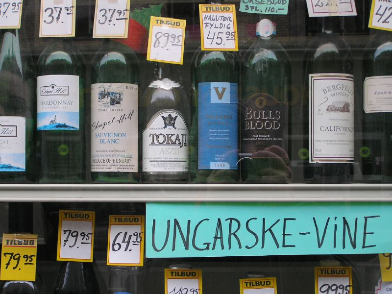 Several bottles of Hungarian wine including Tokaji and Bulls Blood